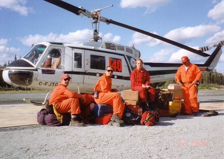 I took this photo of a Bell 205A and its helitack crew in Sioux Lookout ON in 1995